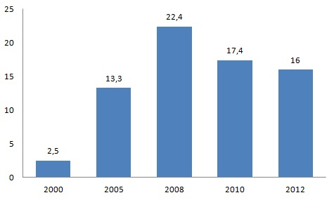 ezb (= electronical journal library)